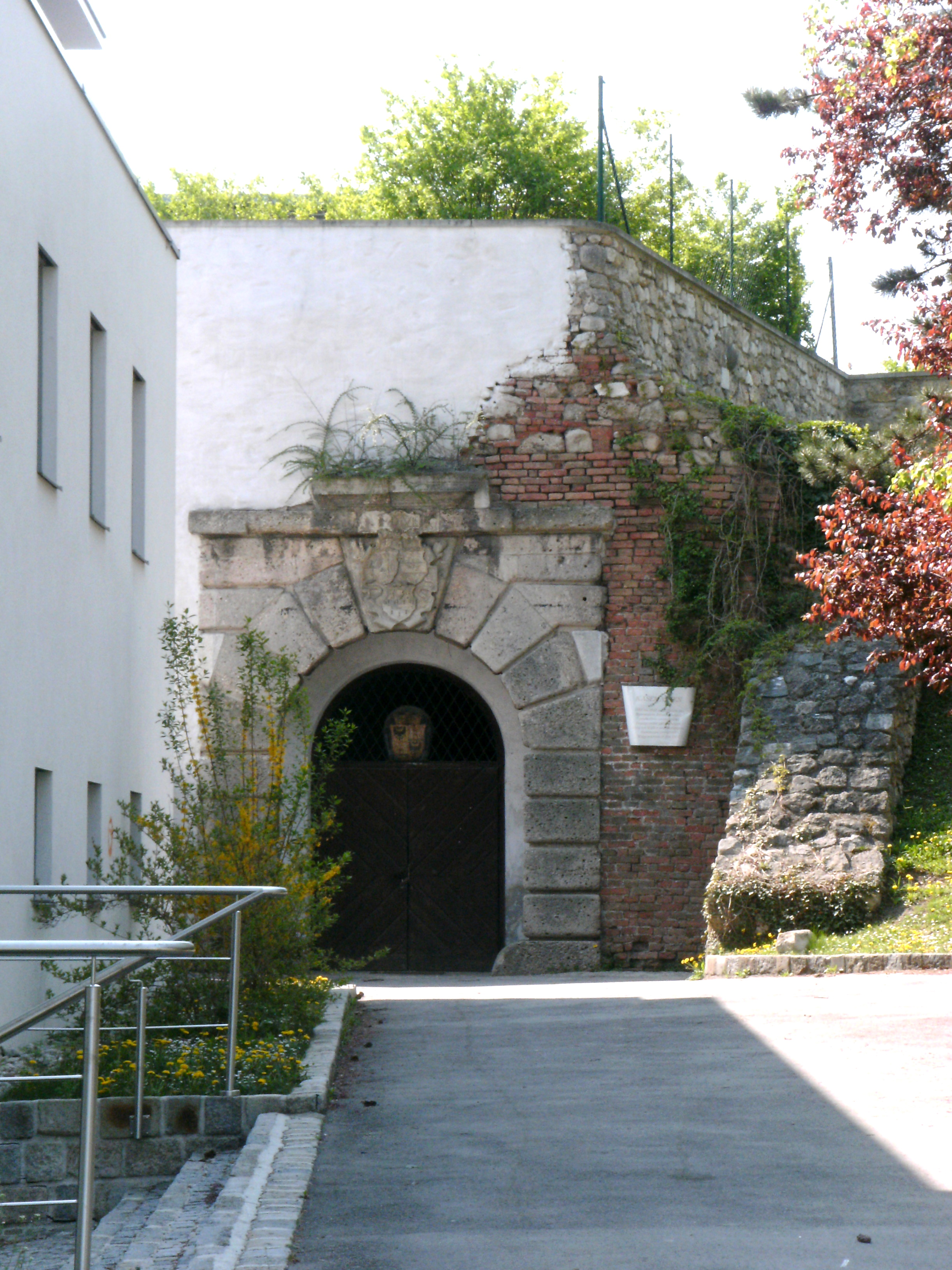 Entrance of Wiener Neustadt casemates in Bahnstrasse 27